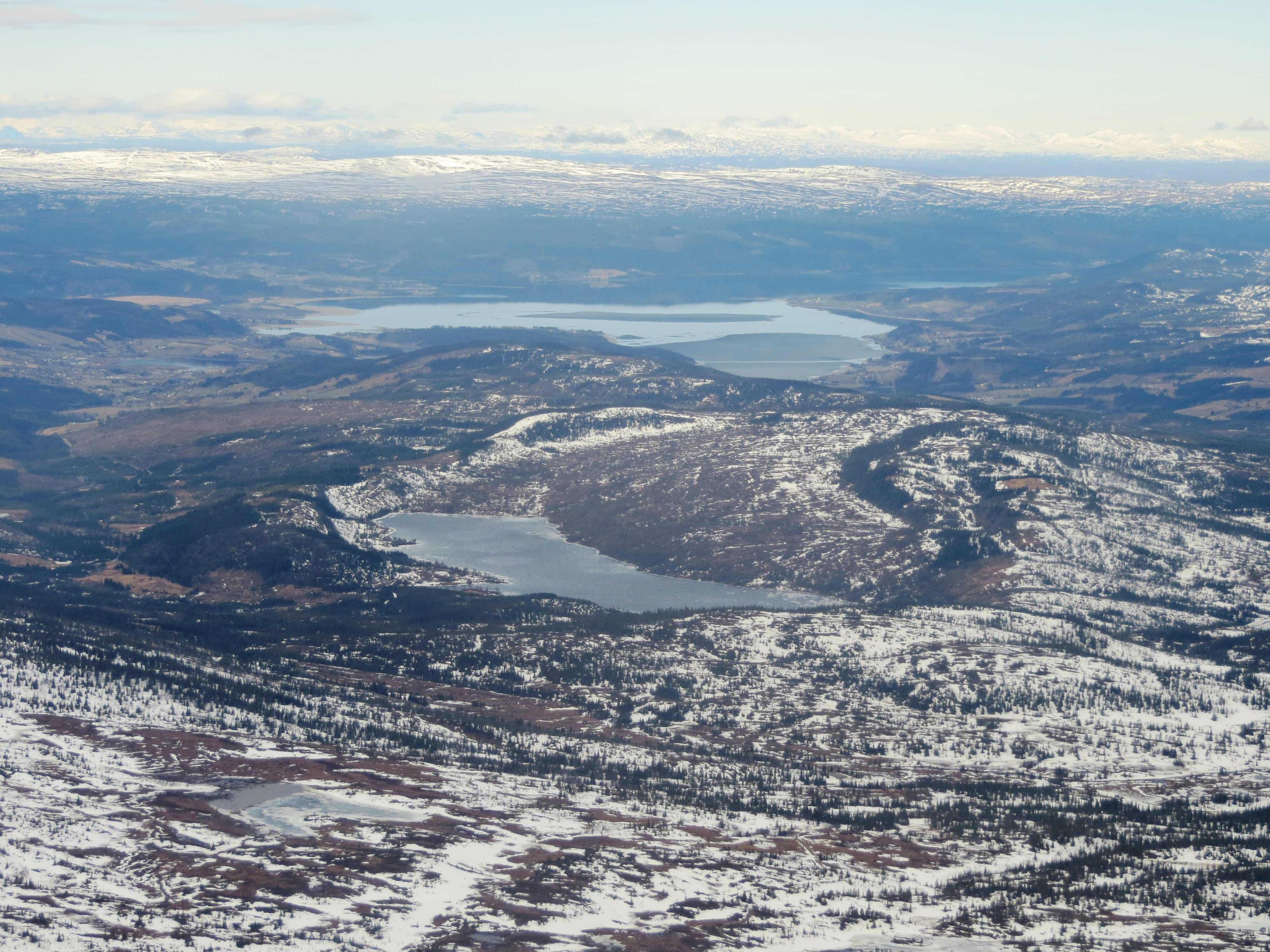 Image taken from the area east of the Selbusjøen lake, municipality of Selbu, towards the west. County of Sør-Trøndelag, central Norway. Selbusjøen is in the background.